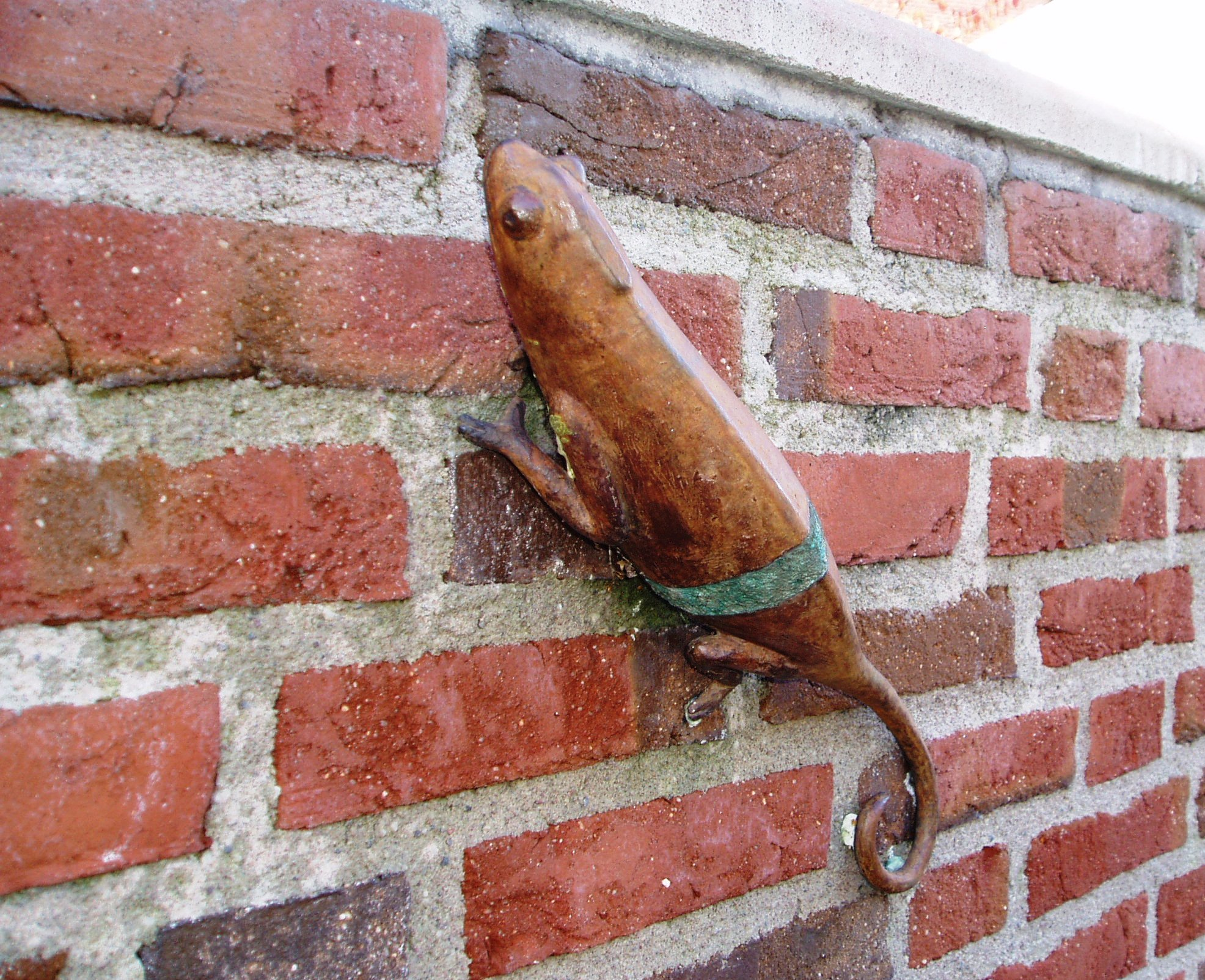 Förnimmelse, sculpture by Linnea Jörpeland, at gymnasium in Skogås, Huddinge municipality, Sweden